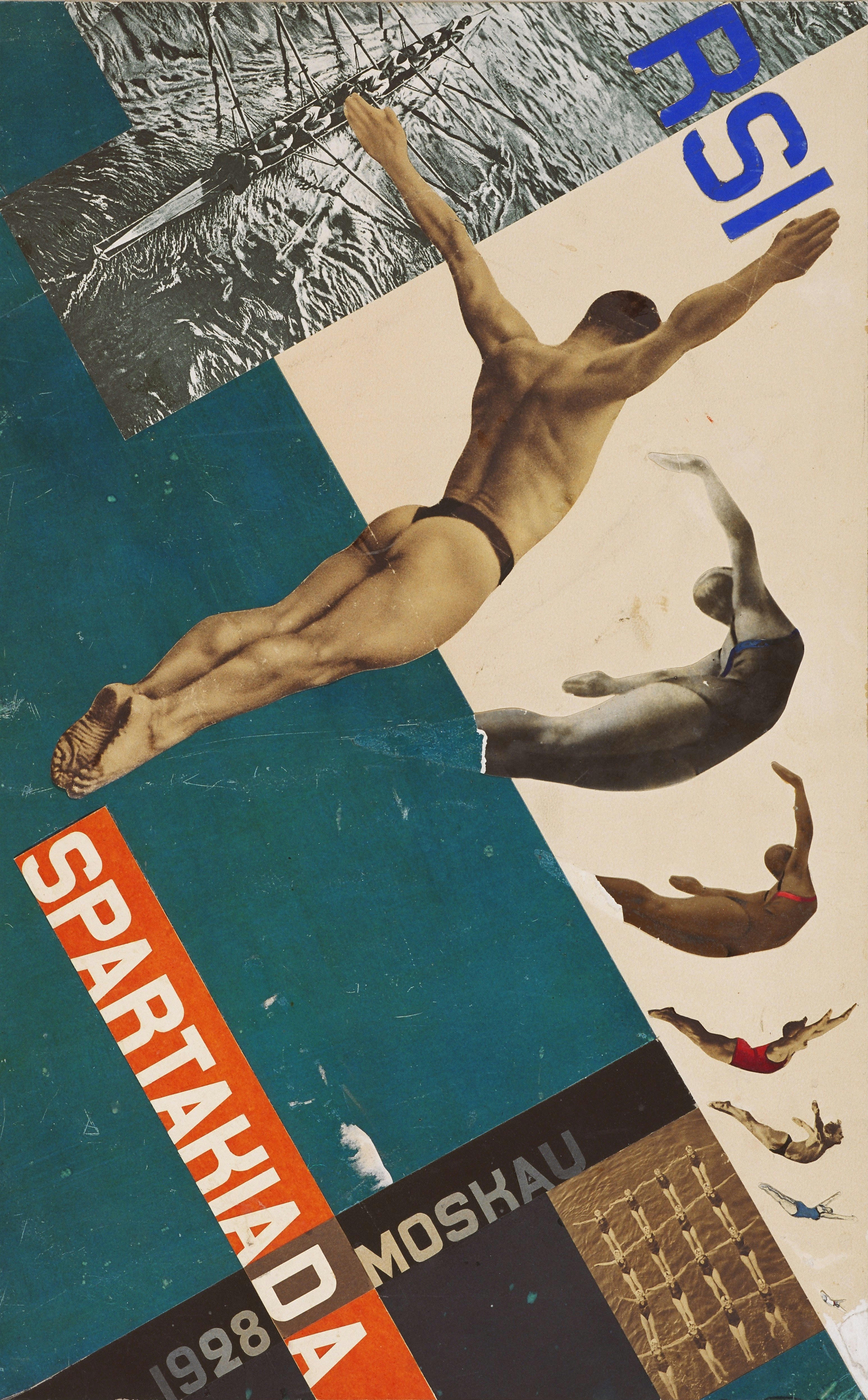 The Swallows (Diving) Design for postcard - Gustavs Klucis